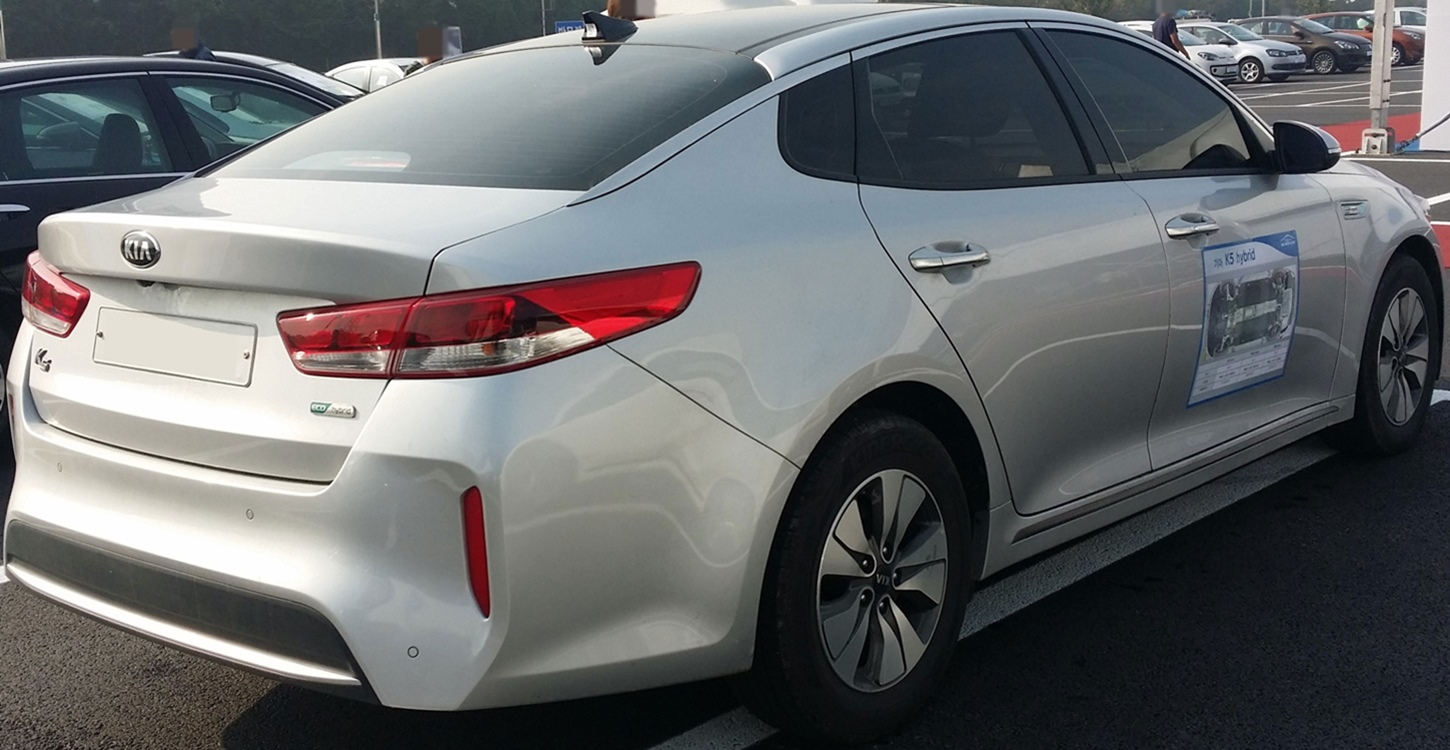 Kia K5 Hybrid